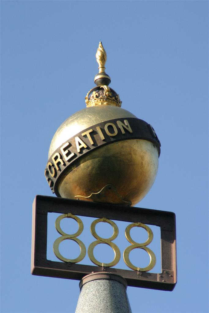 monument celebration 8 hour day. 8 hours labour, 8 hours recreation, 8 hours rest.recreation